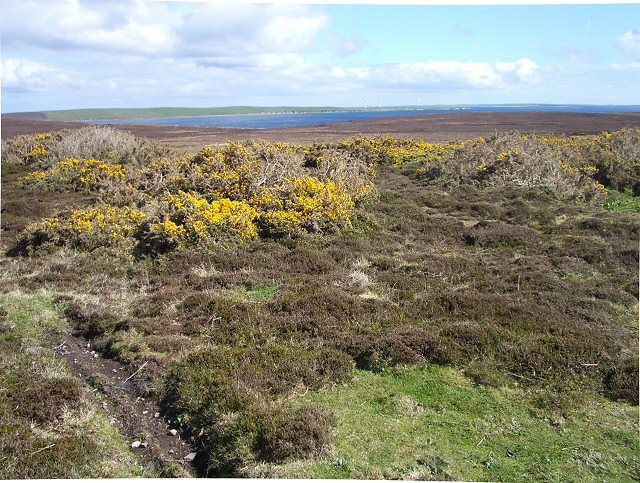 Hill of Bomo, Eday. Looking across the gorse-covered hill to the Sound of Eday in the distance, with the southern part of Sanday on the horizon.